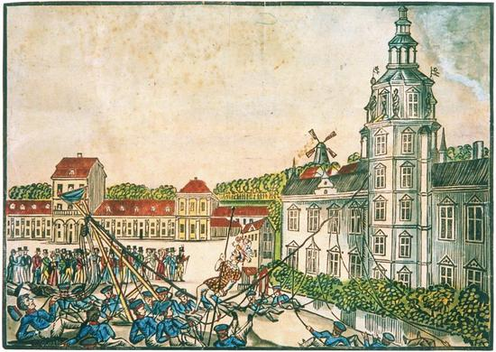 Hand-coloured Wood carving from a flyer (kistebillede) showing the incident when the line dancer Christian Rost was killed when his rope broke during at show on Rosenborg drill grounds in Copenhagen, Denmark